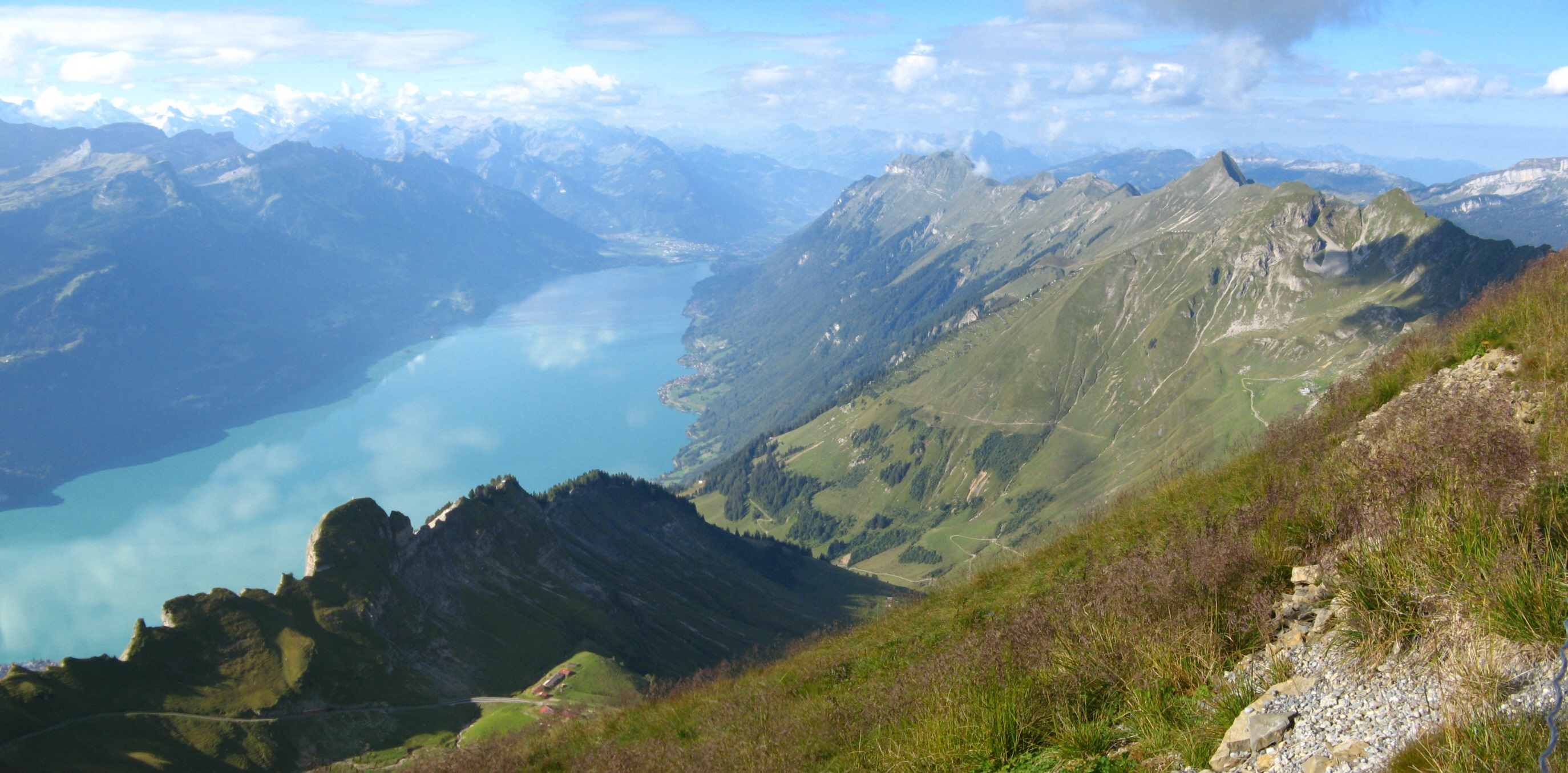 Lake Brienz as seen from the Brienzer Rothorn, Switzerland